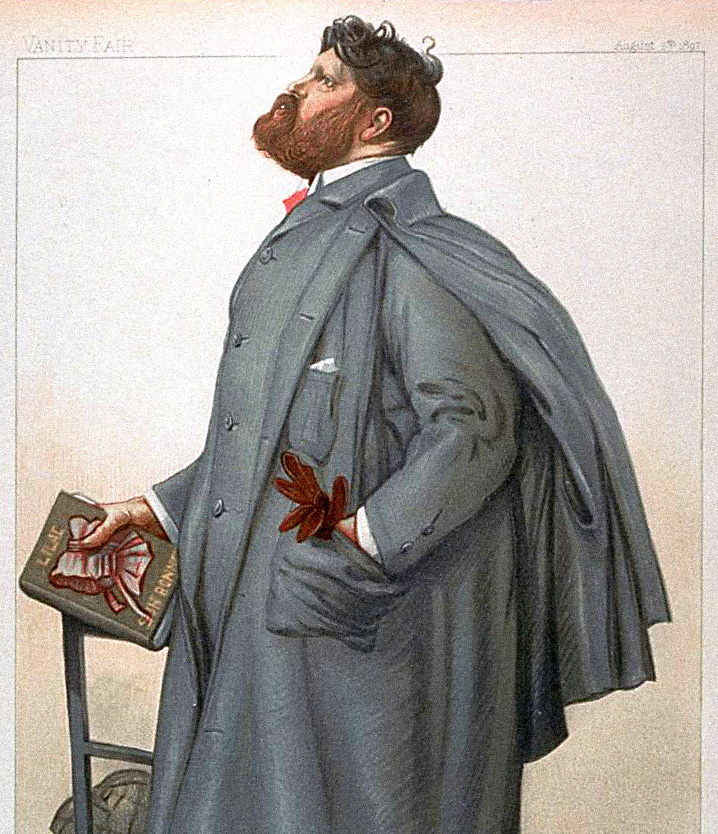 “The Stickit Minister." caricature by "F.R." of Scottish novelist Samuel Rutherford Crockett.